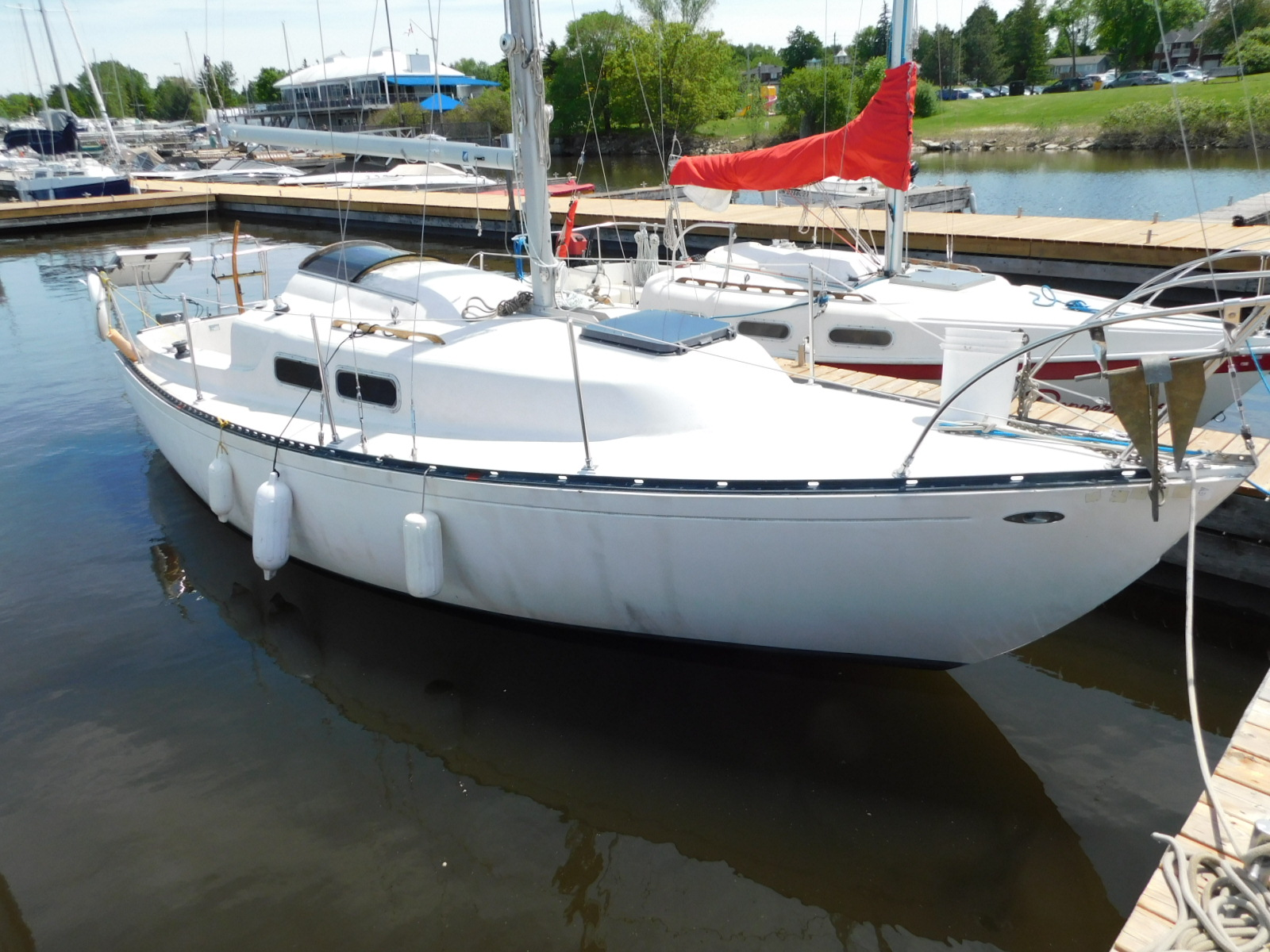 A Northern 25 sailboat named Whimsy.